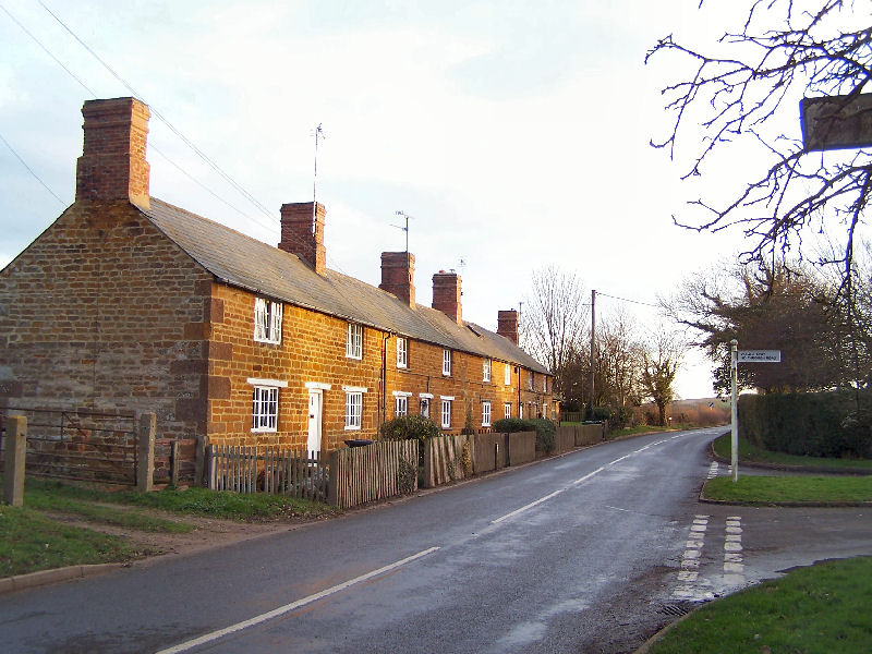 Stokerston taken by kev747